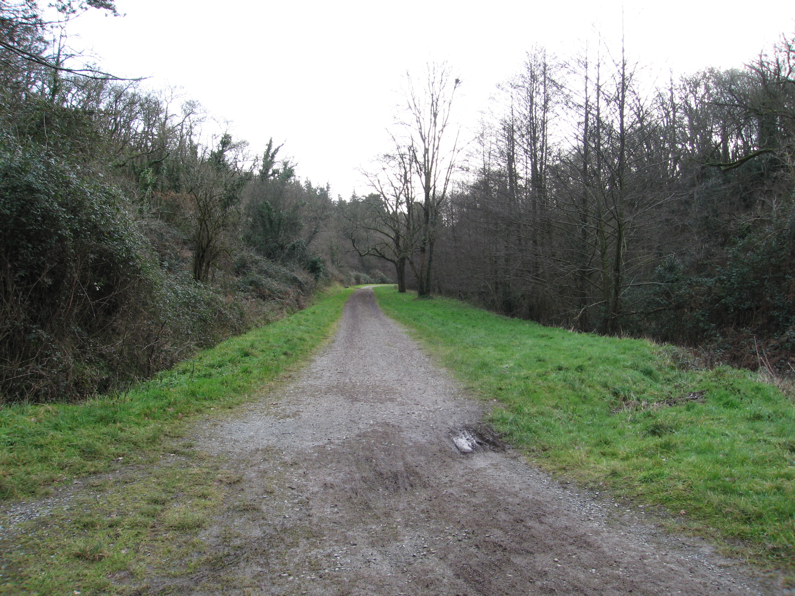 Vallée Mabile, typical valley of the Sillon de Bretagne, France